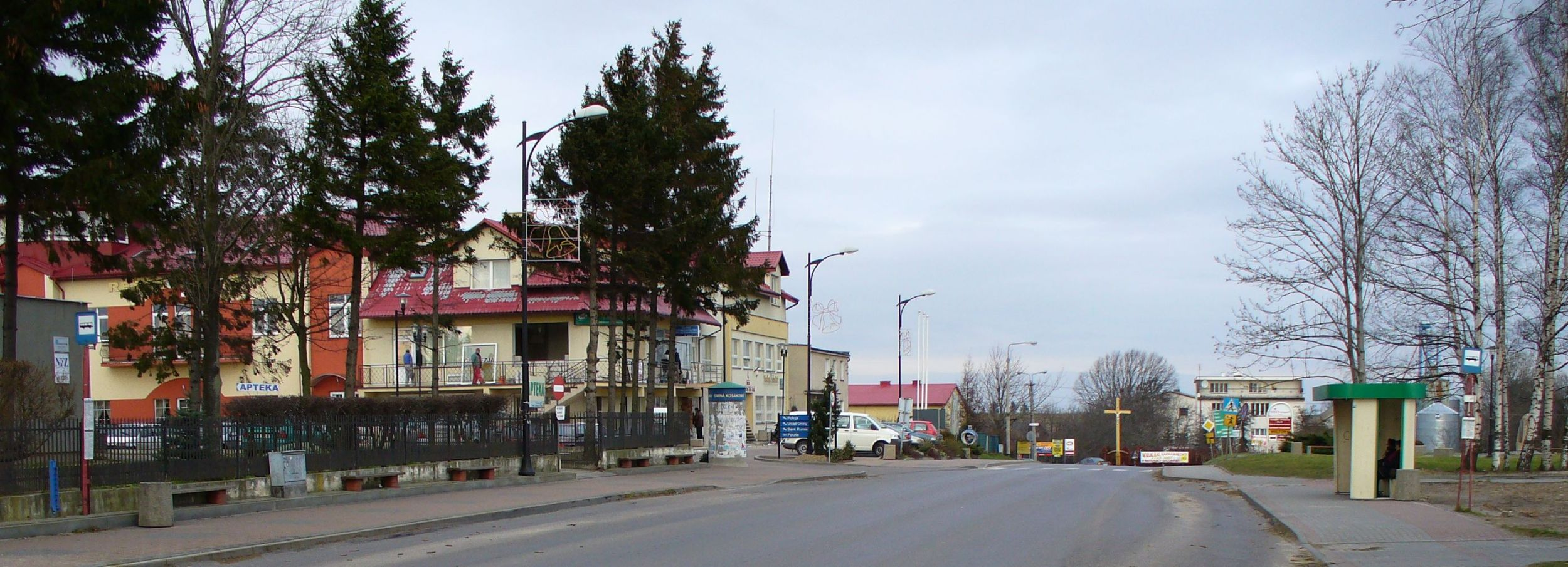 Village Kosakowo, Poland.